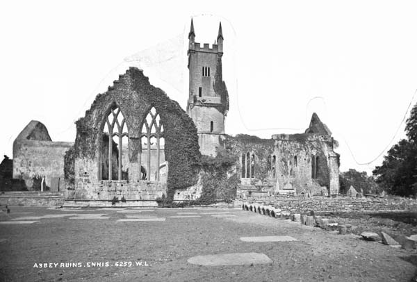 Photograph taken between 1880 and 1914 Format: glass negative Part of: National Library of Ireland Lawrence Collection. For more photographs in this collection see National Library of Ireland catalogue: Reference number: L_CAB_06259